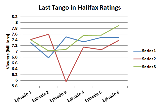 A graph created on Microsoft Excel to show the viewers for Last Tango in Halifax